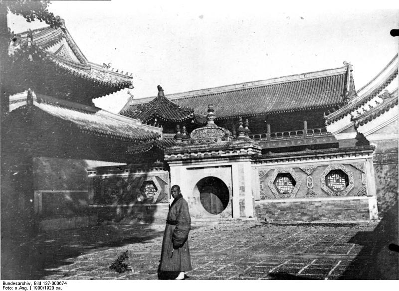 Chinesischer Tempel bei Peking Information added by Wikimedia users.万寿寺, Wanshou Temple. Sie also Image:Blkyq.jpg